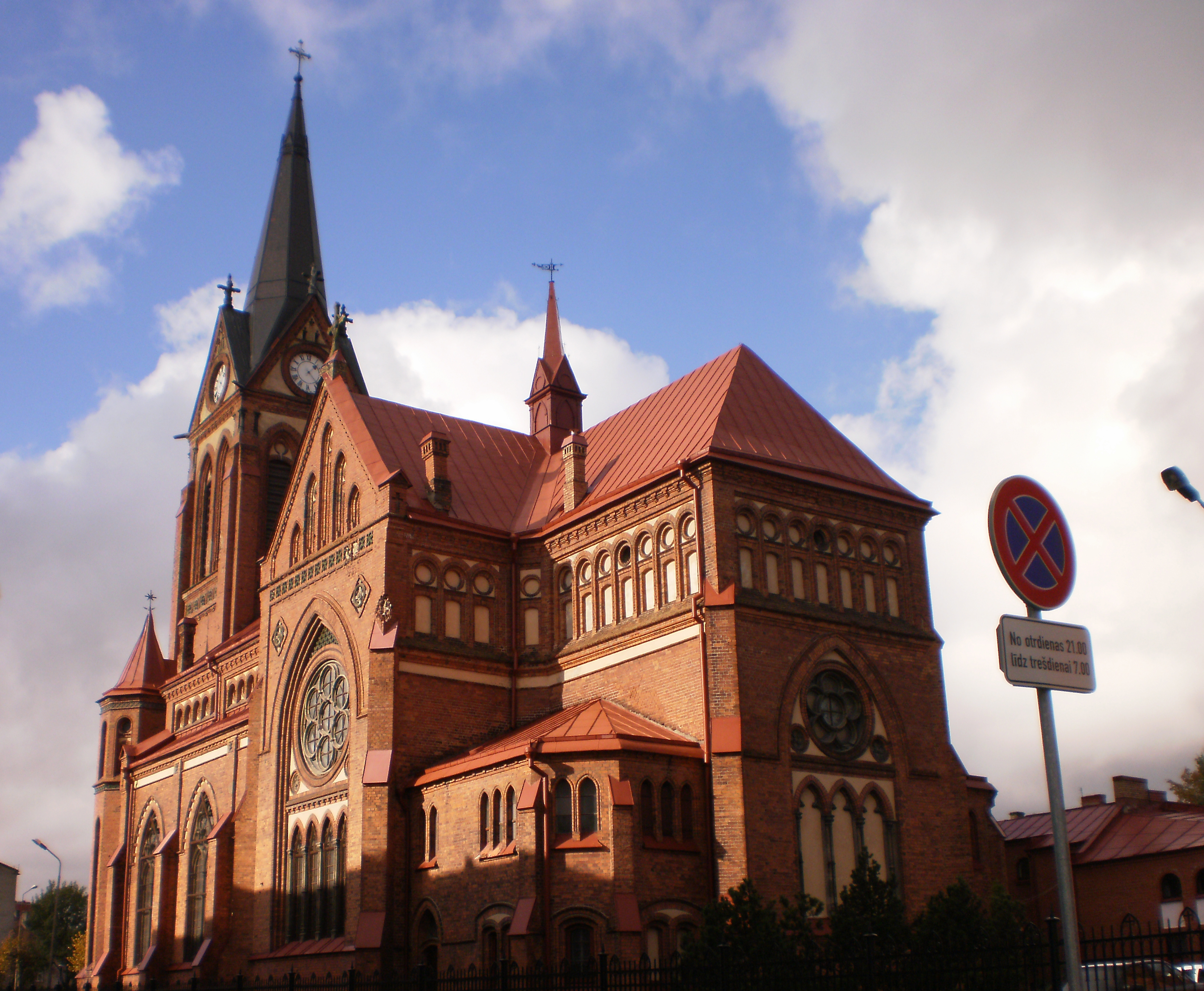 Bezbainigas Jelgavas Marijas katedrale